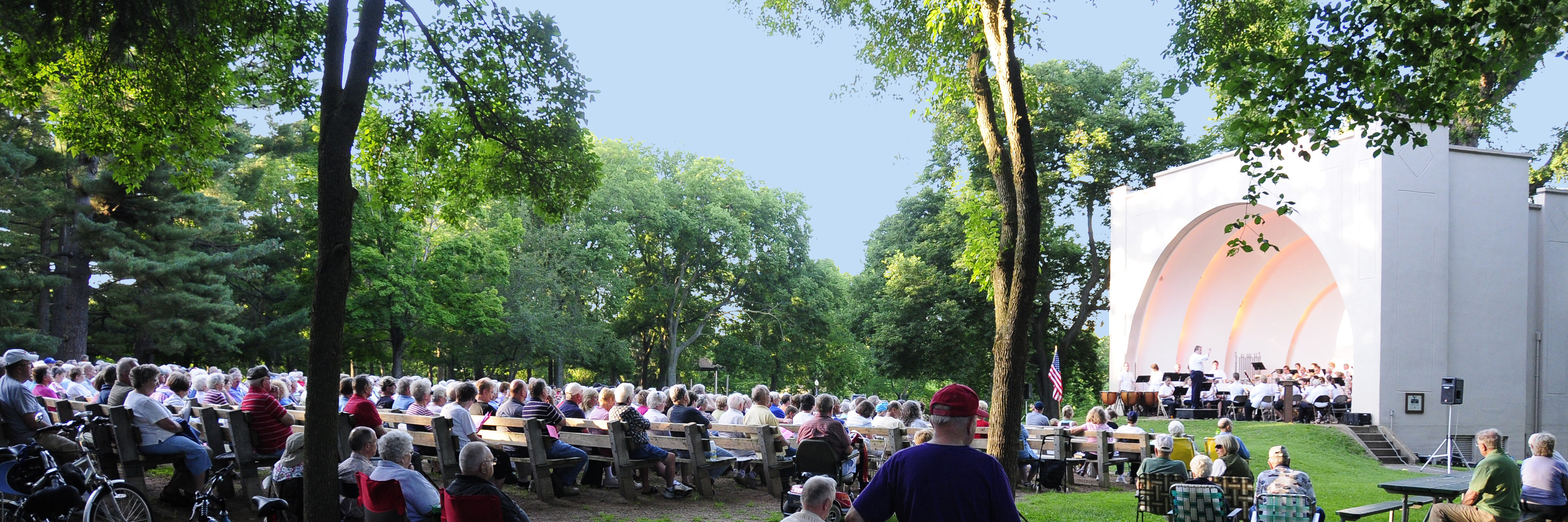 ECMB (Eau Claire Municipal Band) Audience